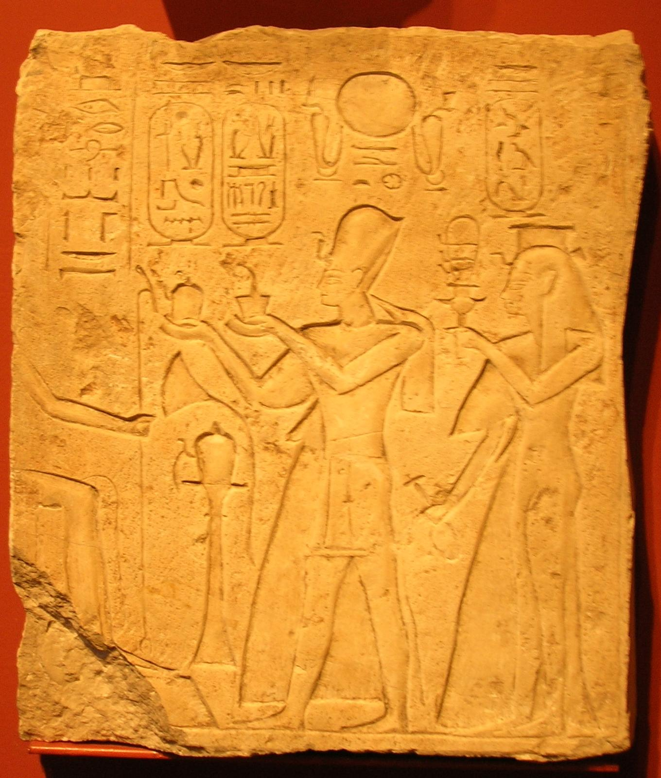 Pharaoh Ramesses II of the 19th dynasty of Egypt with his mother Queen Tuya.